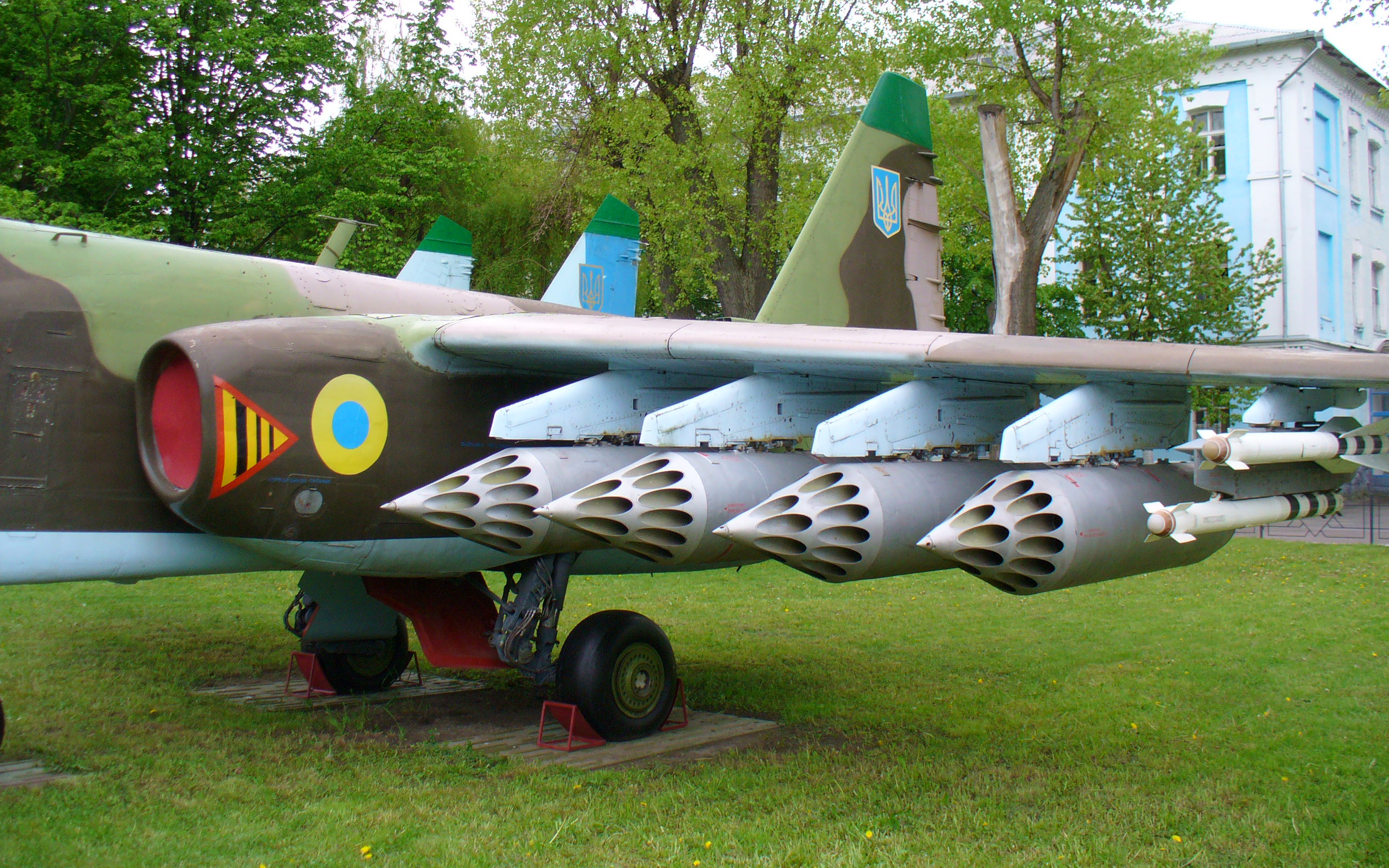 The Sukhoi Su-25 is a Soviet Union jet aircraft. NATO reporting name "Frogfoot". Ukrainian Air Force Museum in Vinnitsa.